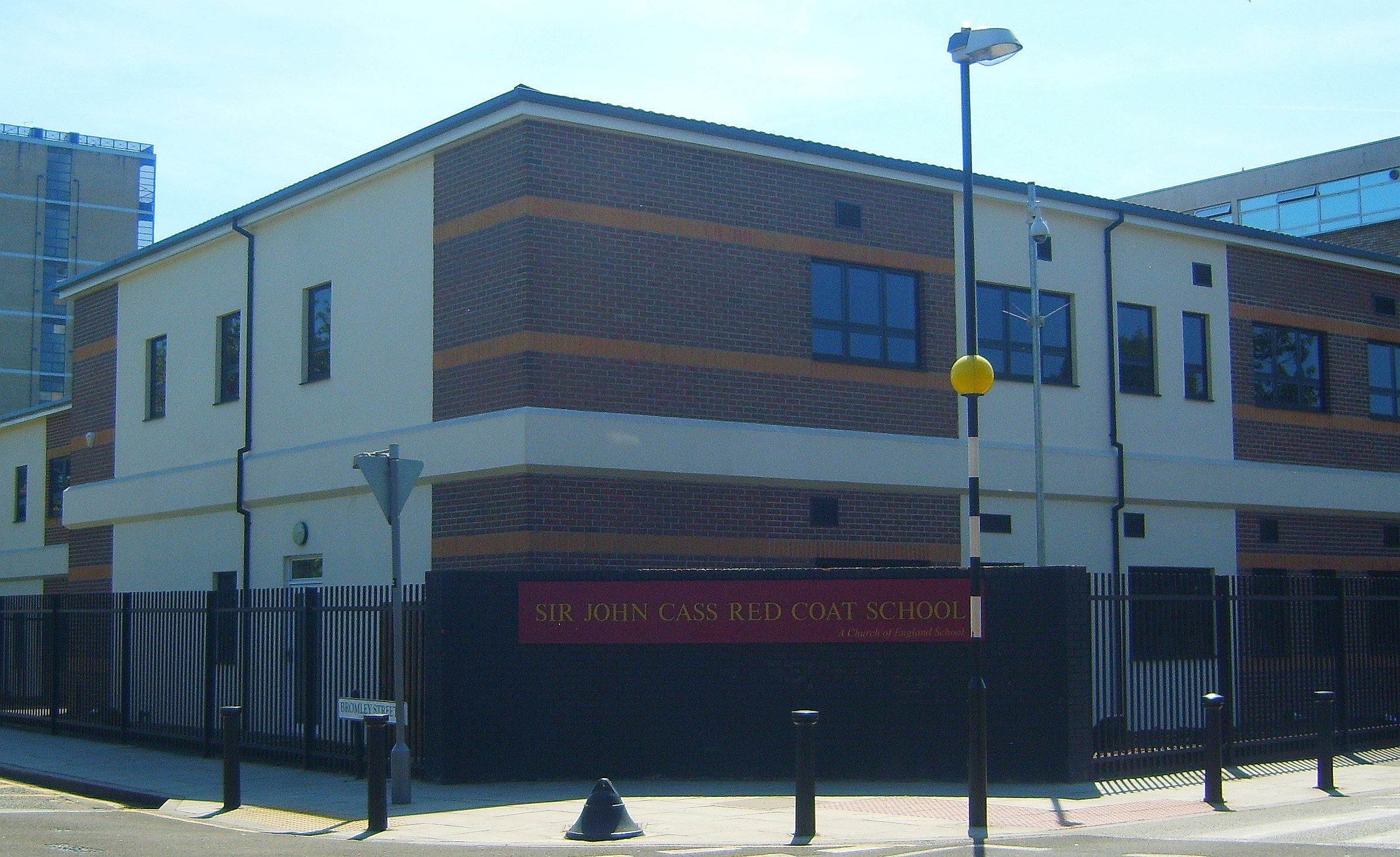 John Cass Redcoat School in Stepney, London, E1